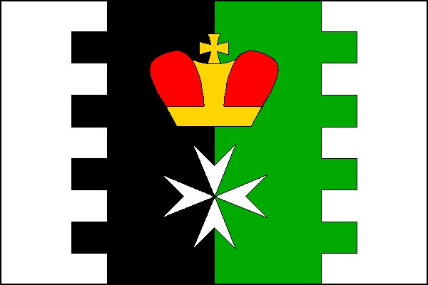 Municipal flag of Orlovice village, Vyškov District, Czech Republic.